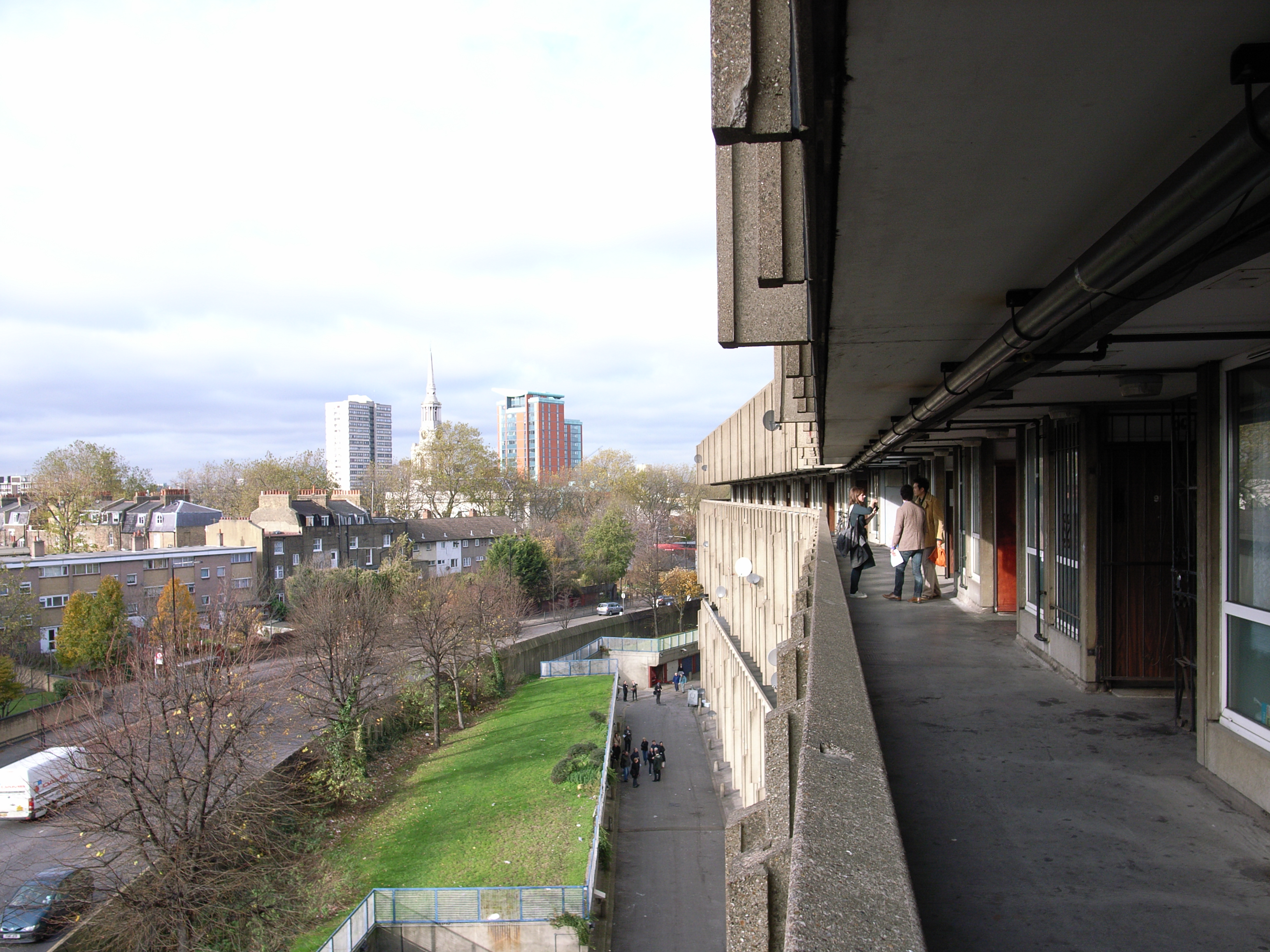 "Streets in the Sky" - Robin Hood Gardens (1968-72) by Alison and Peter Smithson. Photo taken on a 20th Century Society visit to Robin Hood Gardens and the Balfron Tower on 15/11/2008.